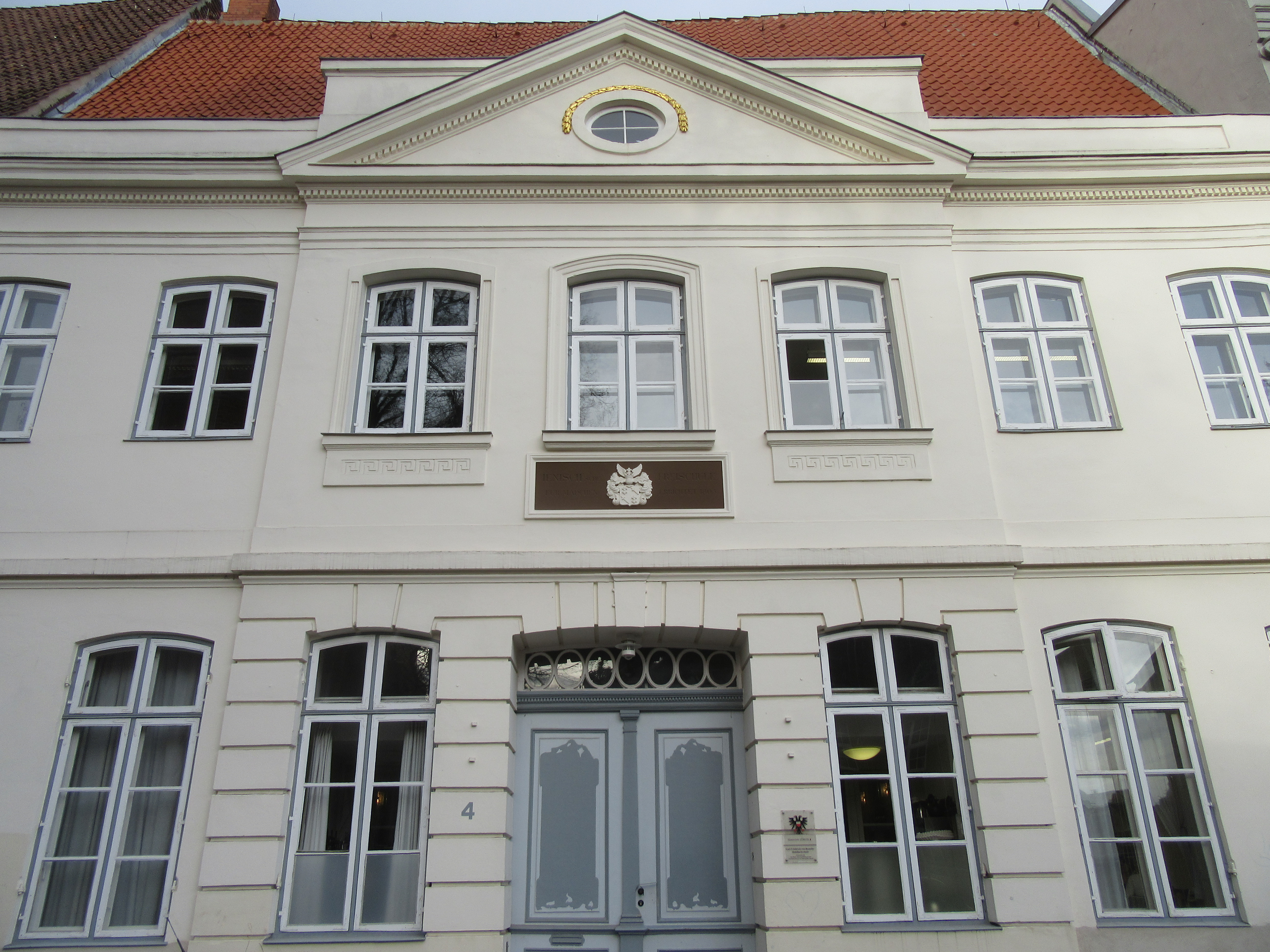 St.-Annen-Strasse 4